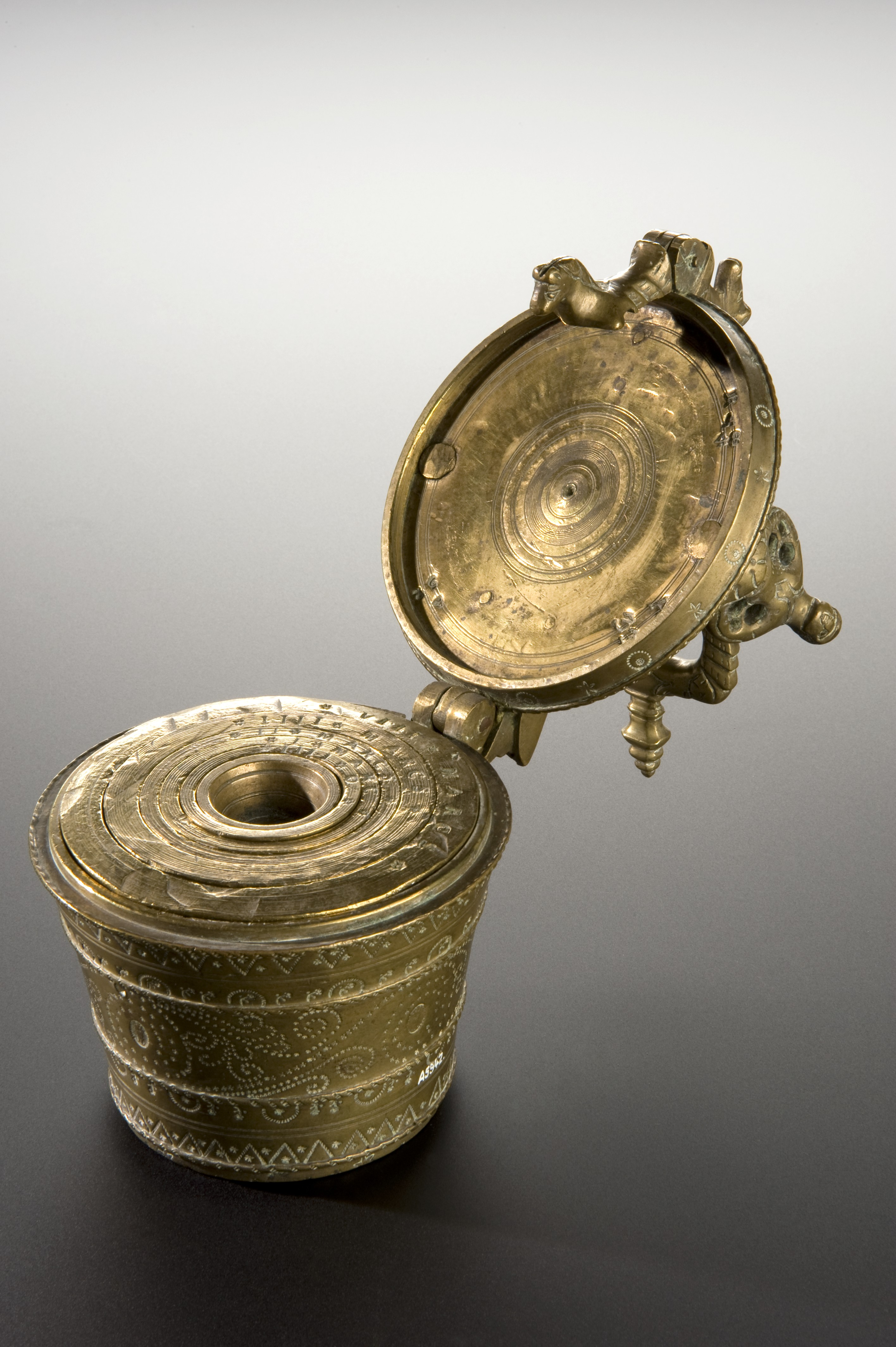 Set of 17th century nested brass weights. Weights inside container. Graduated matt black perspex background. Wellcome Images